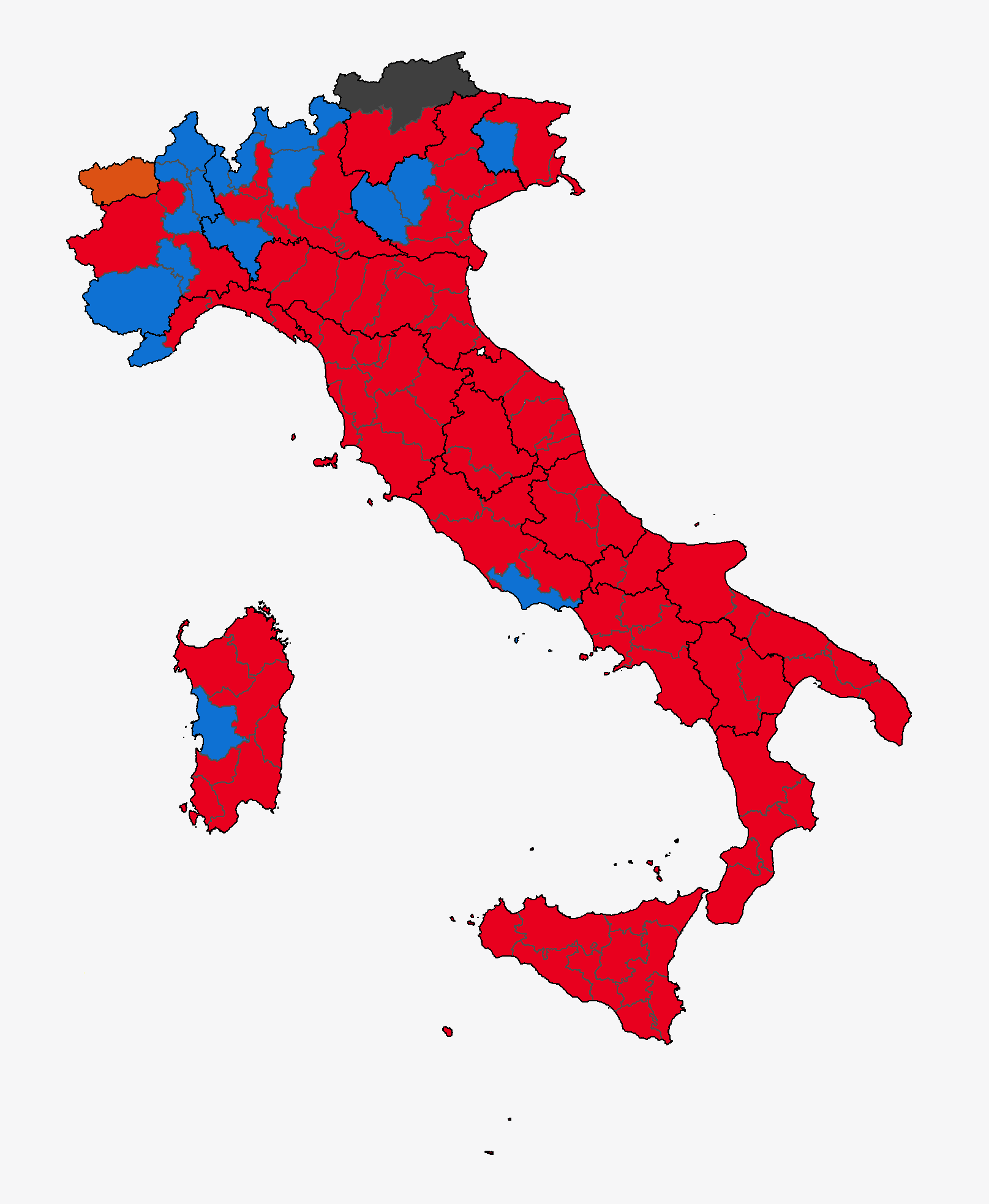 Europe